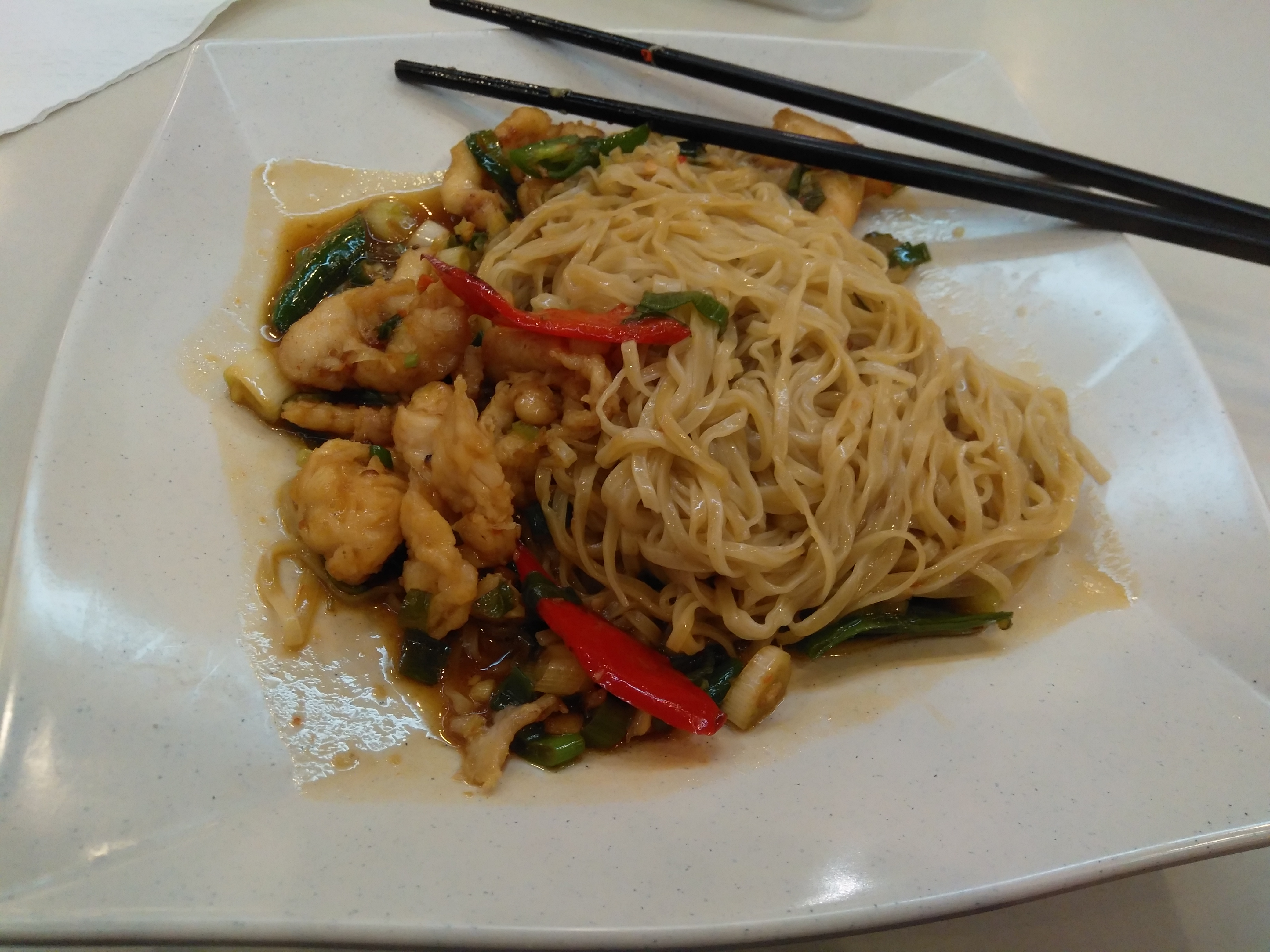 Bakmi GM Cah Cabe